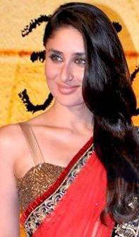 Indian actress Kareena Kapoor at the premiere of her film 3 Idiots (2009)